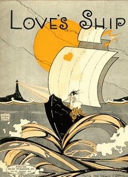 Cover of sheet music for "Love's Ship" by Alice Nadine Morrison.